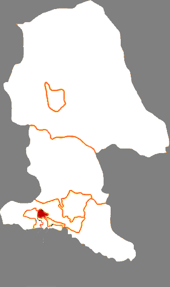 Locator map of Qingshan District in Baotou City, Inner Mongolia, China